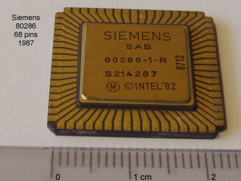 Ceramic QFN Package, 68 'Pins', Siemens 80286, 1987